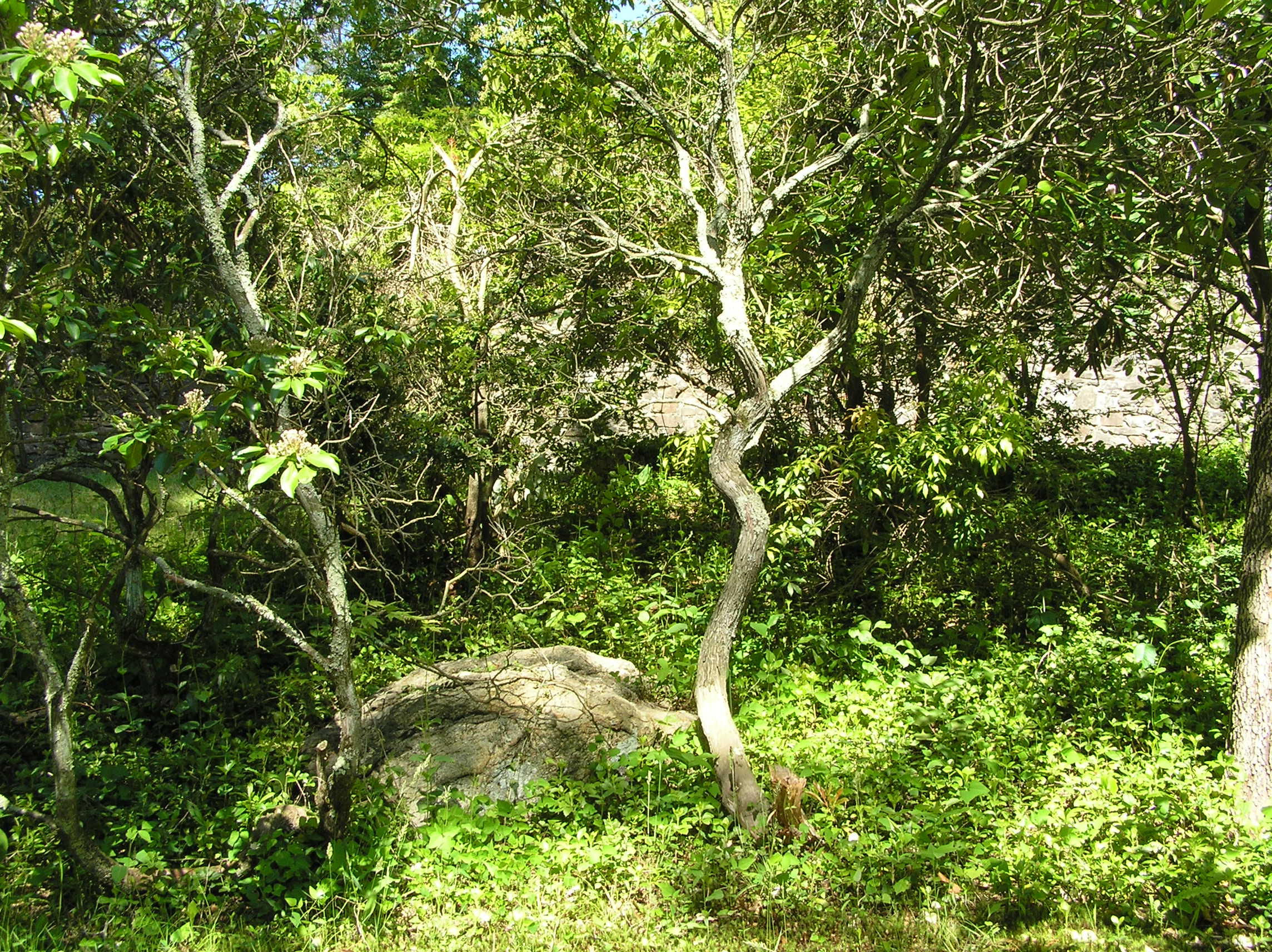 The unmarked grove of mountain laurel at Raymond Hood's gravesite, Sleepy Hollow Cemetery, New York.